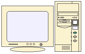 Personal Computer Pentium I 586